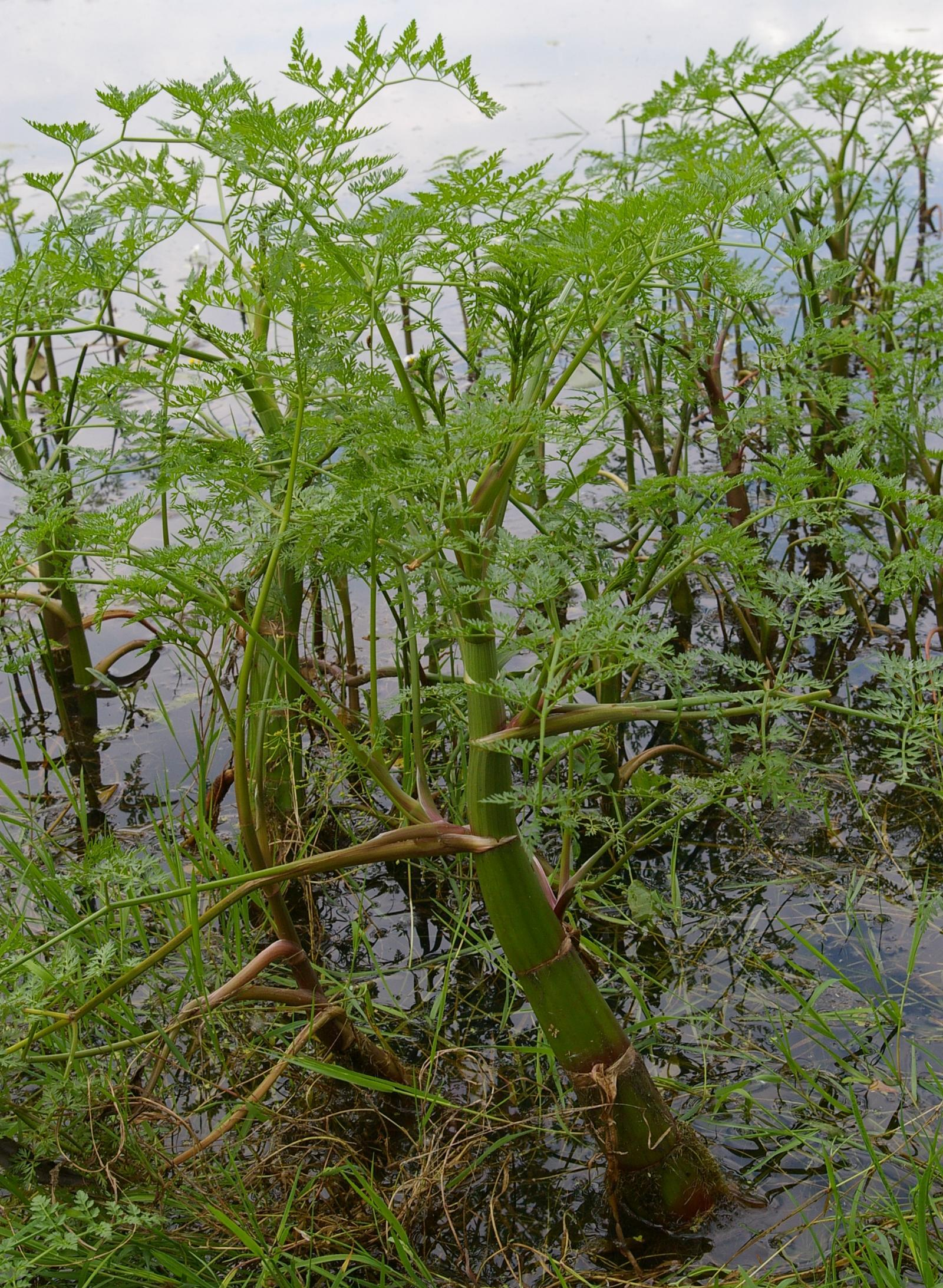 Typical habitus of Oenanthe aquatica plants in a pond.